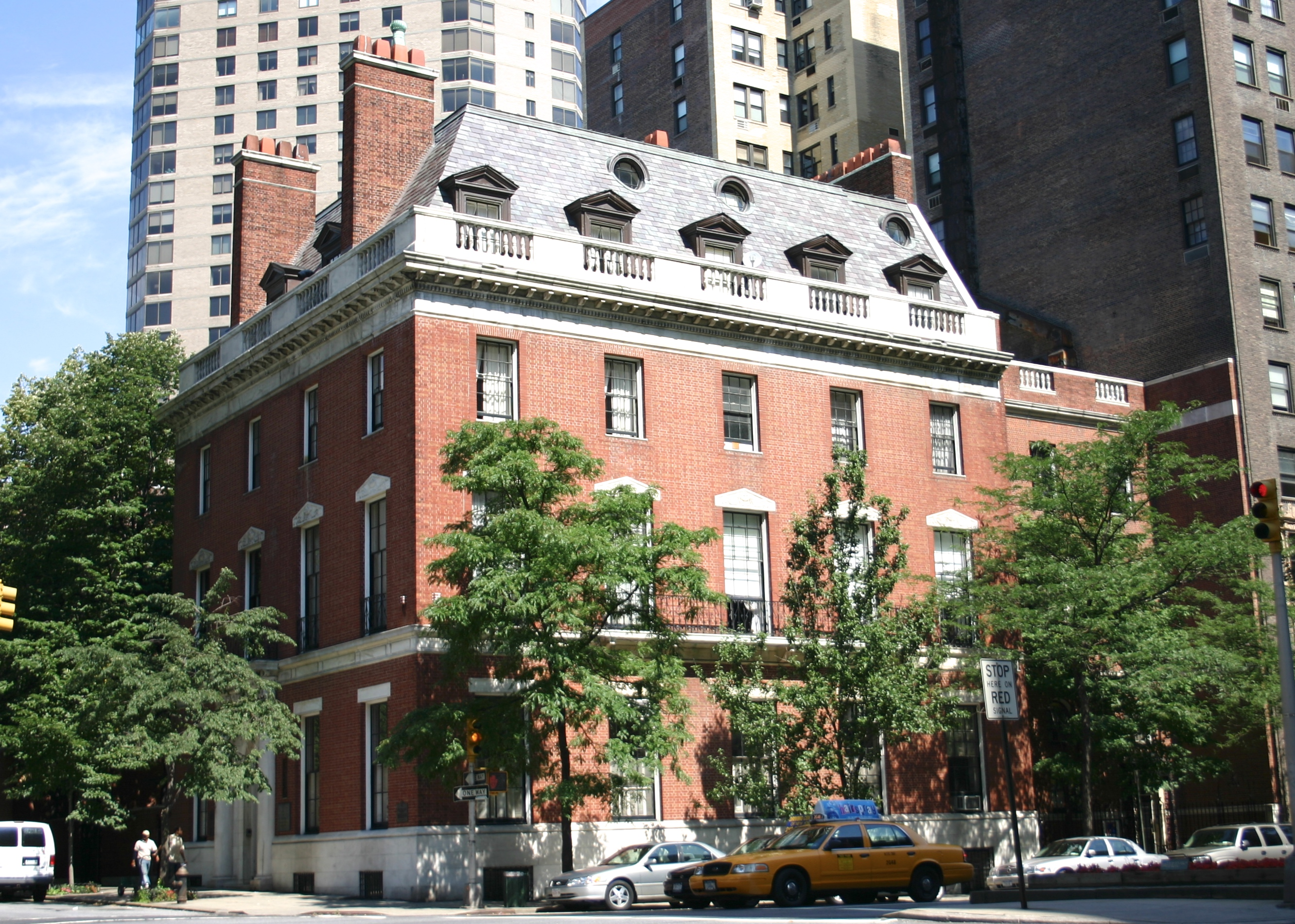 The George F. Baker Jr. House, 75 East 93rd St. at Park Avenue, New York City.